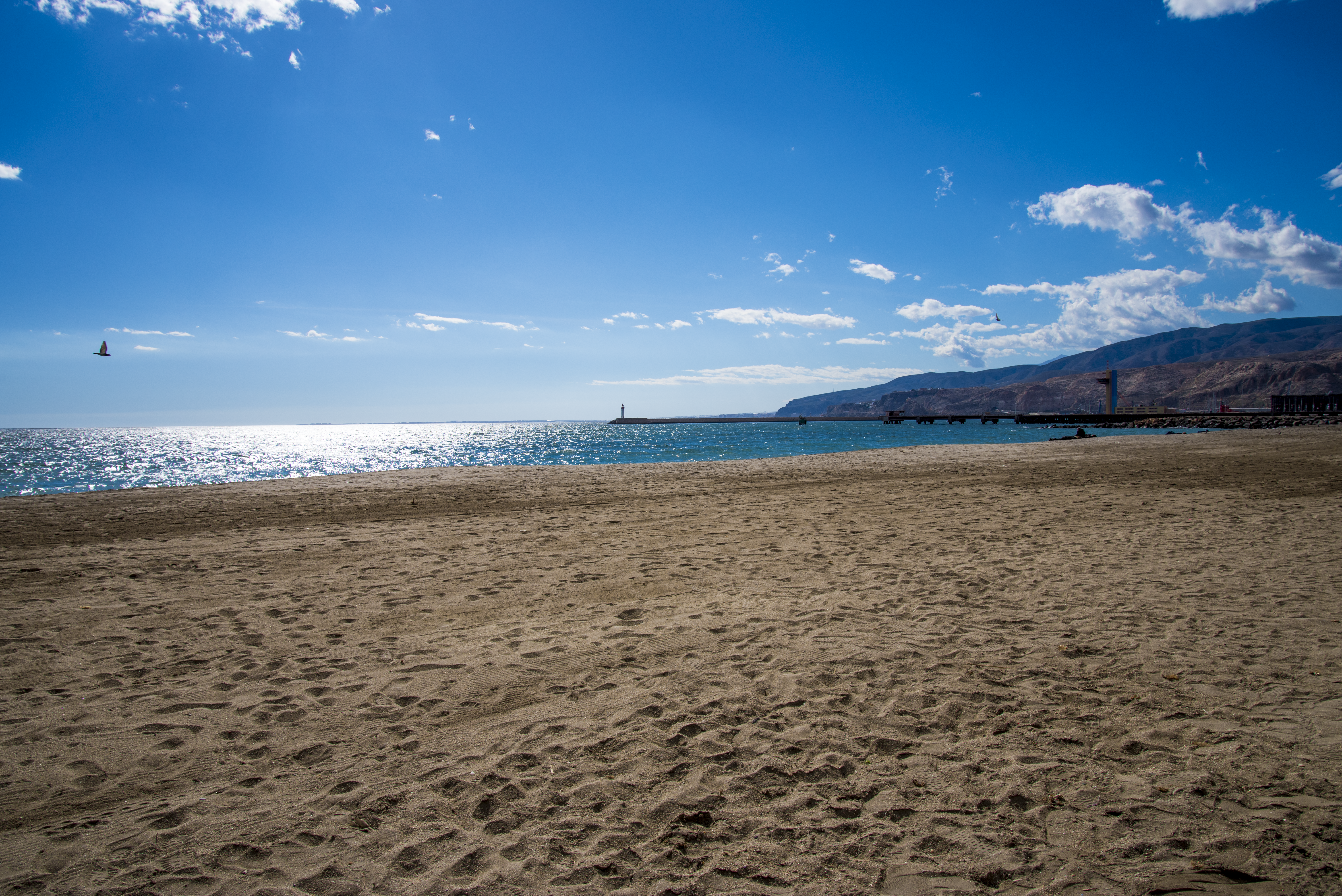 Playa de El Zapillo en Almería